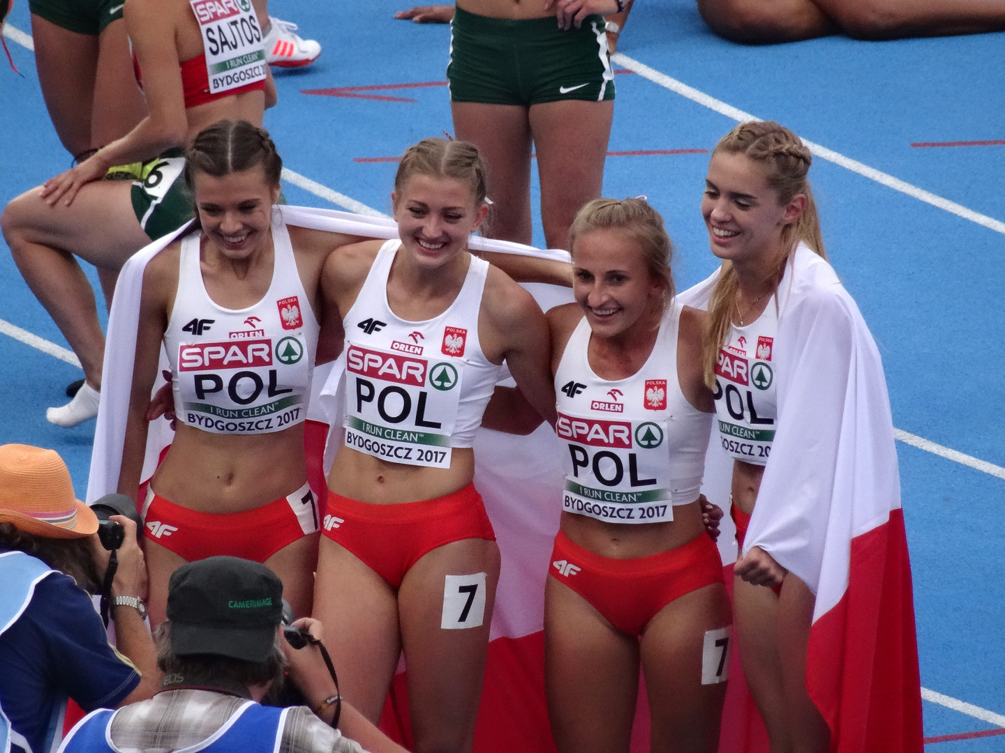 2017 European Athletics U23 Championships in Bydgoszcz Poland, 4x100m relay women final